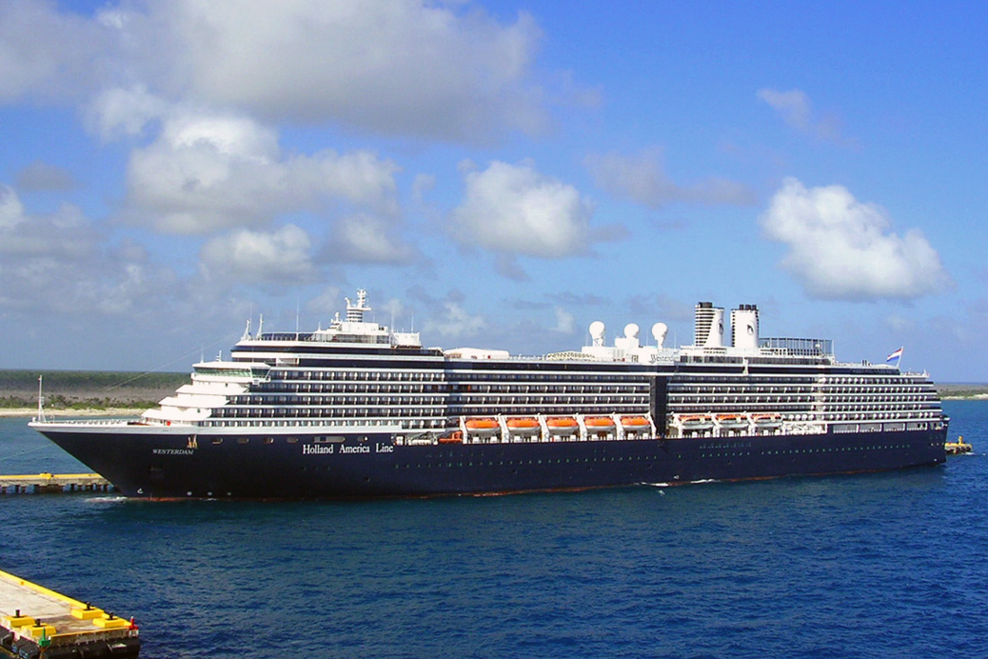 Westerdam is a Holland America Line cruise ship, carrying 1,900 passengers and a crew of 800. It was built in 2004. The ship is 934 ft (285 m) long, has 11 passenger decks, and is rated aat 82,500 tons. It is in the same class as Zuiderdam, which we took on a Panama Canal cruise in 2008.